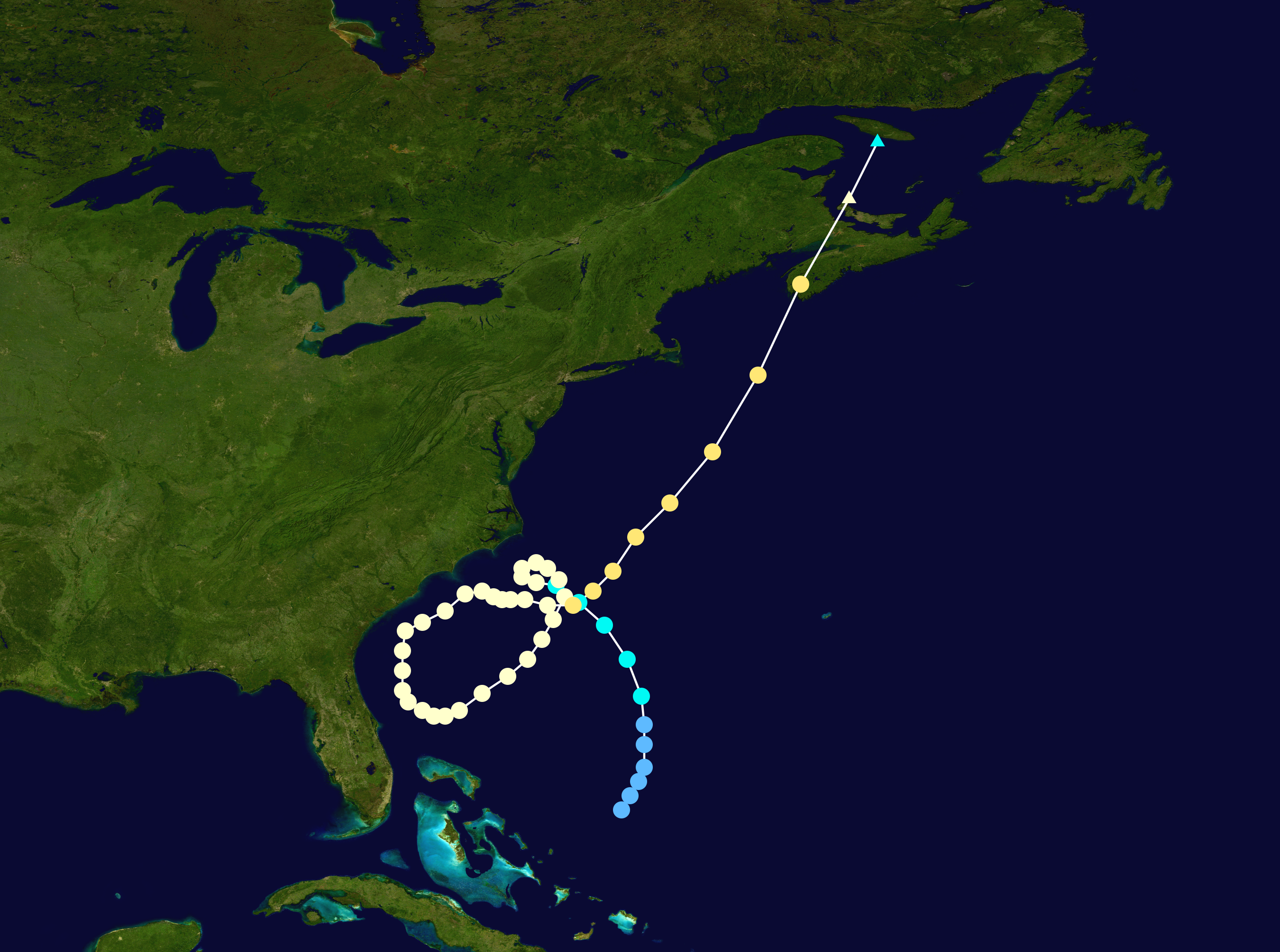 Track map of Hurricane Ginny of the 1963 Atlantic hurricane season. The points show the location of the storm at 6-hour intervals. The colour represents the storm's maximum sustained wind speeds as classified in the Saffir–Simpson scale (see below), and the shape of the data points represent the nature of the storm, according to the legend below. Saffir–Simpson scale Tropical depression≤38 mph≤62 km/h Category 3111–129 mph178–208 km/h Tropical storm39–73 mph63–118 km/h Category 4130–156 mph209–251 km/h Category 174–95 mph119–153 km/h Category 5≥157 mph≥252 km/h Category 296–110 mph154–177 km/h Unknown Storm type Tropical cyclone Subtropical cyclone Extratropical cyclone / Remnant low / Tropical disturbance / Monsoon depression